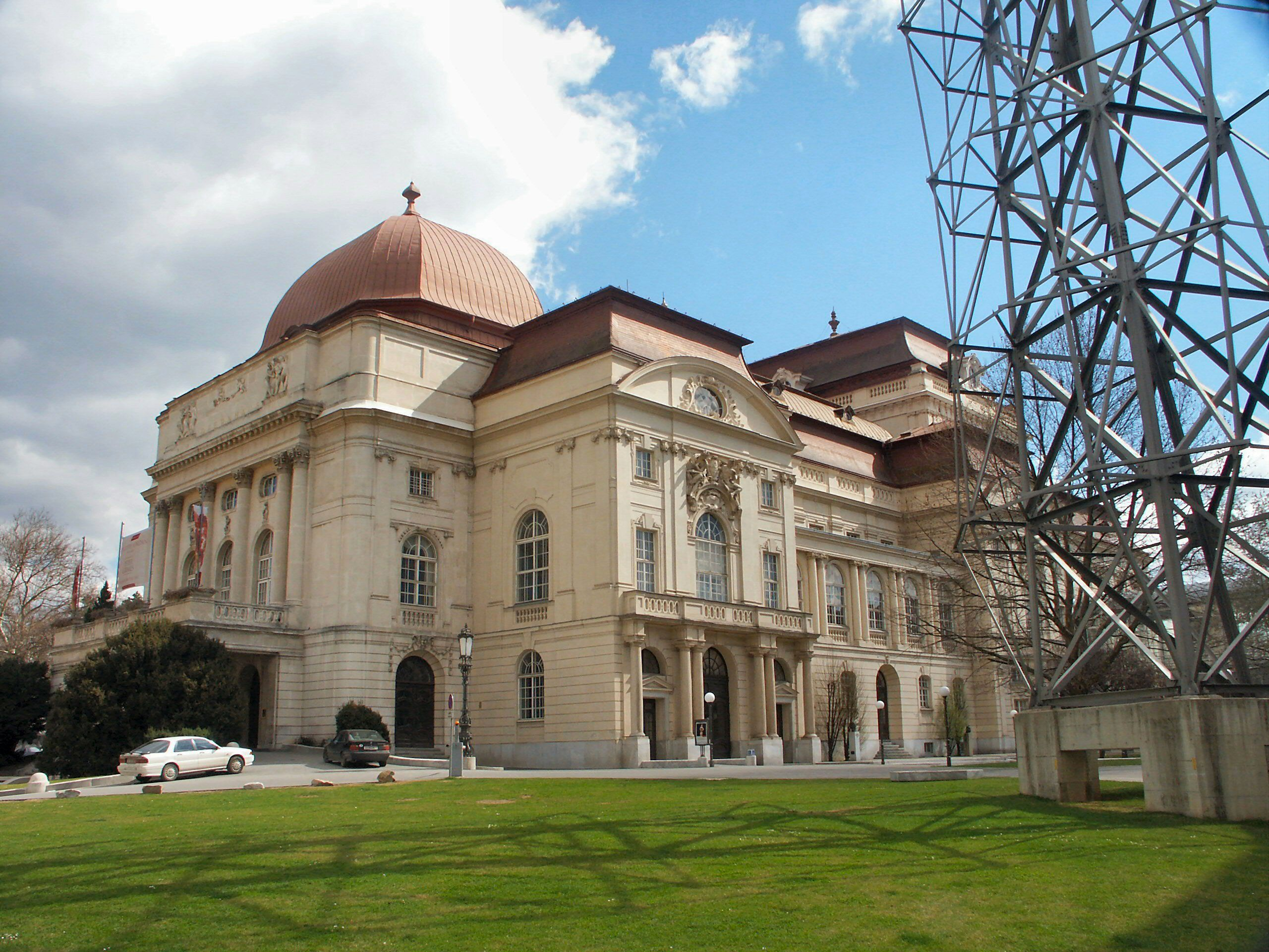 Opera House in Graz (Austria), part of "Lichtschwert" sculpture in the foreground to the right